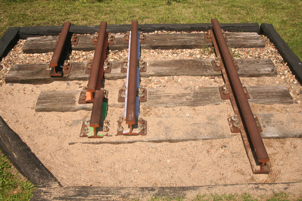 Comparison of four gauges in Hoorn (NL): 1435 mm, 1067 mm, 1000 mm and 750 mm; 6 august 2009. Foto: Erik Swierstra.